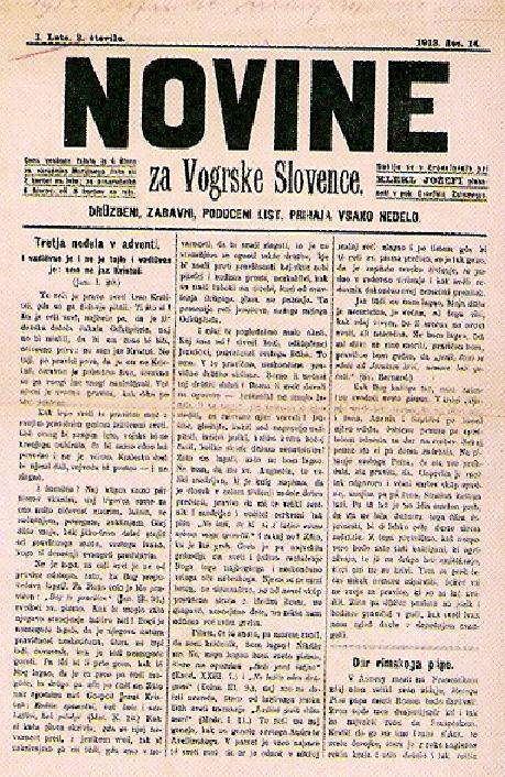 Novine, slovenian newspaper in Hungary (1918)